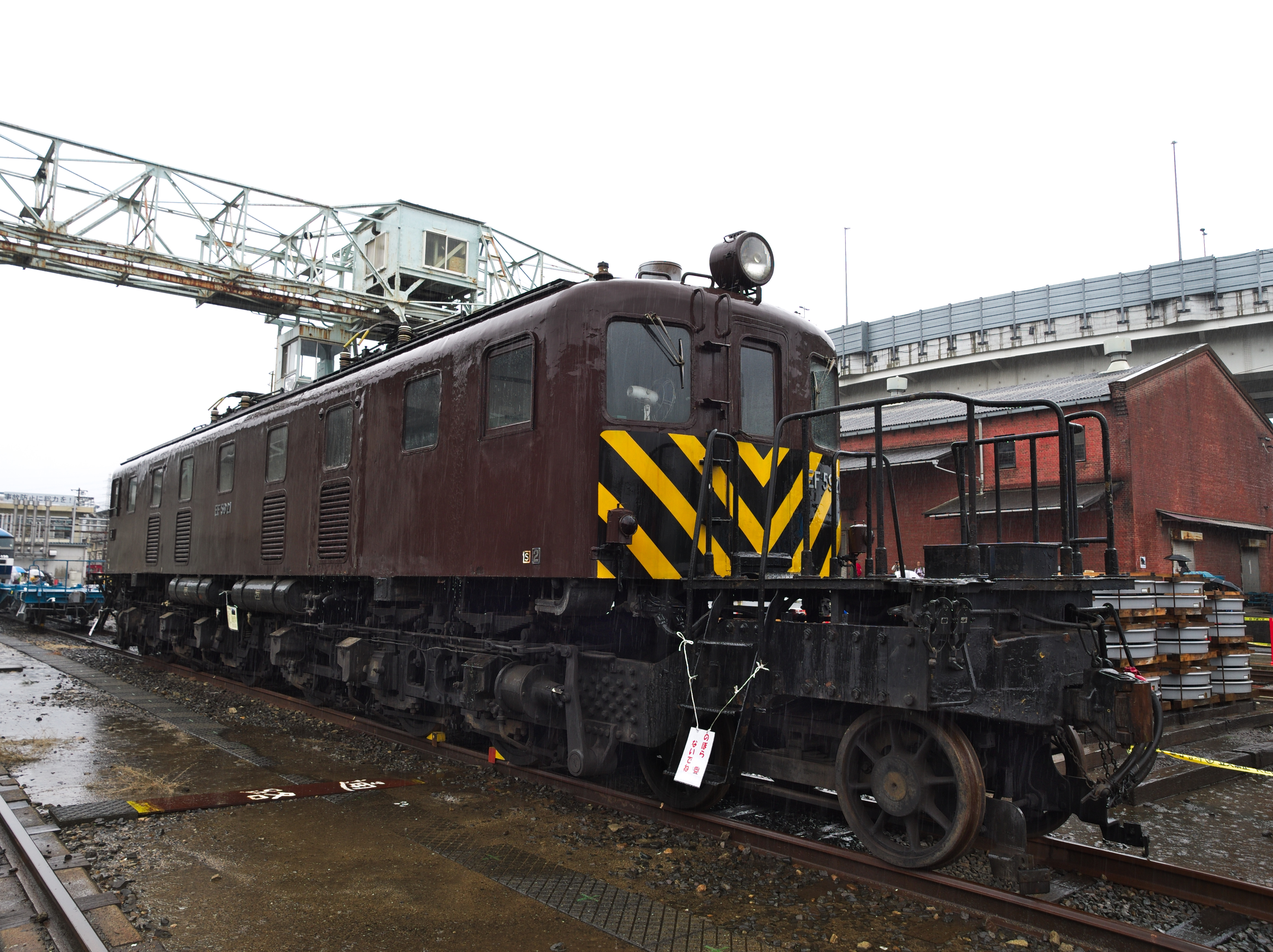 Preserved Class EF59 electric locomotive EF59 21 at Hiroshima Works open day